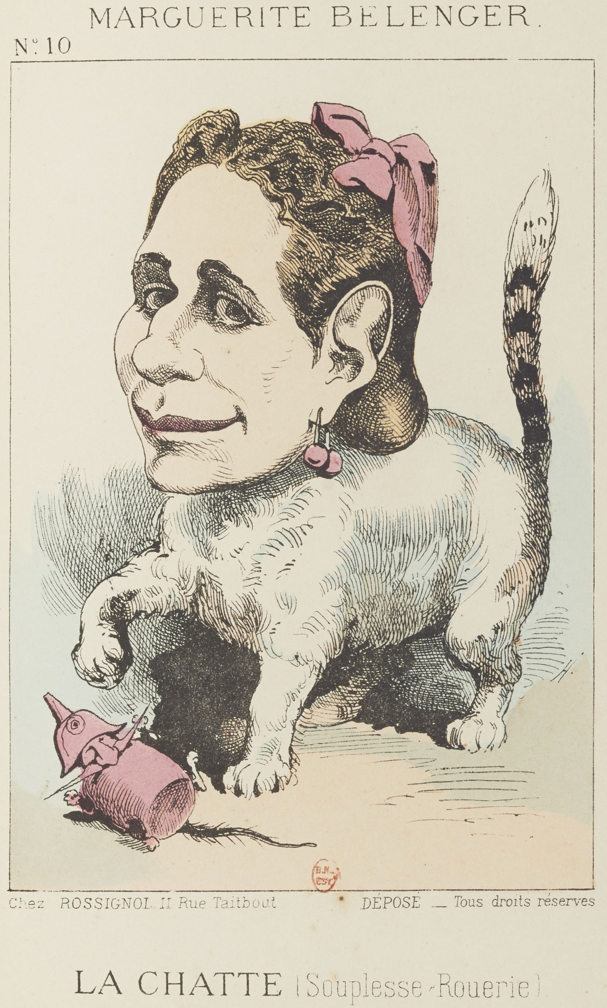 Caricature of Marguerite Bélenger, a favourite mistress of Napoleon III but loathed by others. The caption reads La chatte (Souplesse-Rouerie), meaning 'The Cat (Nimbless-Cunning)'.